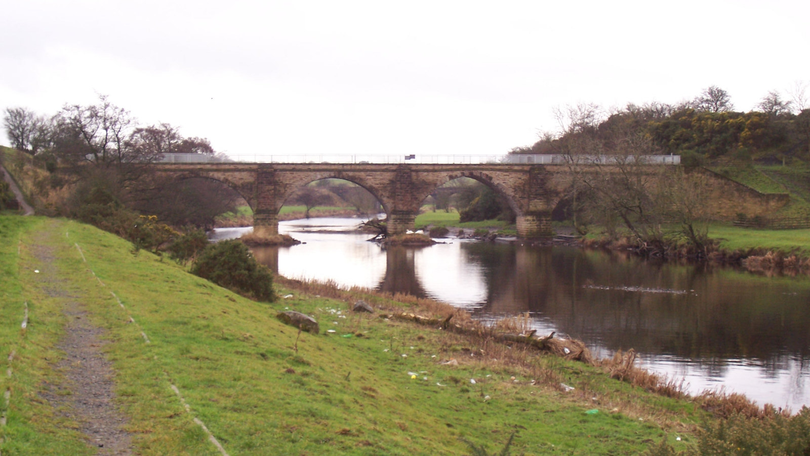 Laigh Milton Viaduct near Gatehead, East Ayrshire, Scotland in February 2006. Formerly known as 'Milton Bridge', it was built as part of the Kilmarnock and Troon Railway, and is thought to be the oldest surviving railway viaduct in the world.